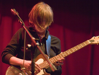 TJO at Tonic in NYC, 10/6/06 Photo by Bob Sanderson